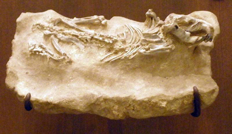 Skeleton of Euhapsis barbouri, a fossil beaver